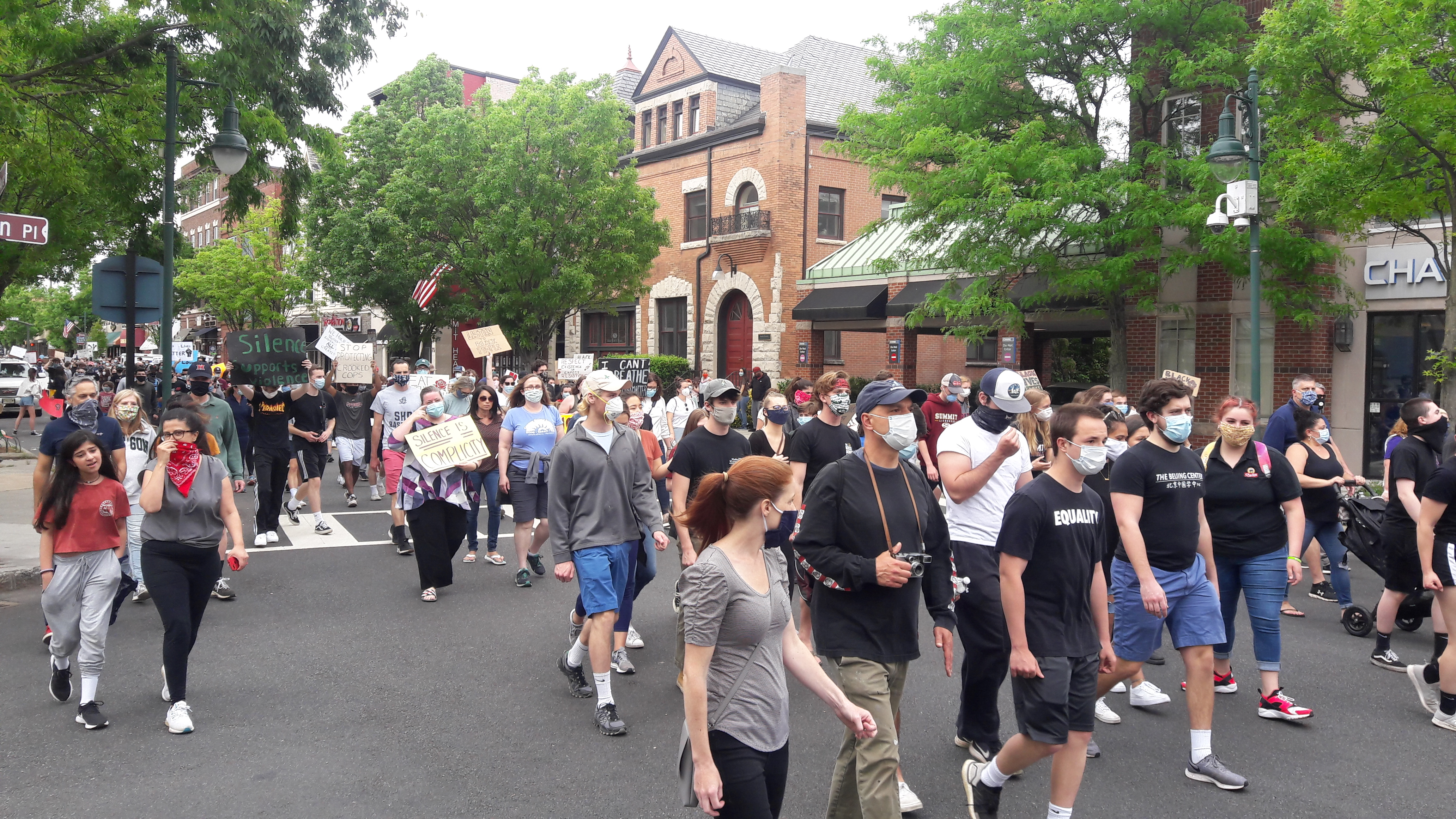 Approximately 6,000 persons attended a rally and a march in Summit, New Jersey, United States, to protest the police killing of Mr. George Floyd. Protesters carried signs saying "Black Lives Matter" and "Equality for All" and "No Justice No Peace". The rally began behind the Lawton C. Johnson Summit Middle School, with the crowd wearing face masks and practicing social distancing during the Covid-19 pandemic. Speakers included Summit's police chief and U.S. Congressperson Tom Malinowski and Summit Mayor Nora Radest. The march proceeded peacefully on Morris Avenue and Springfield Avenue and was escorted by Summit police and EMS volunteers.